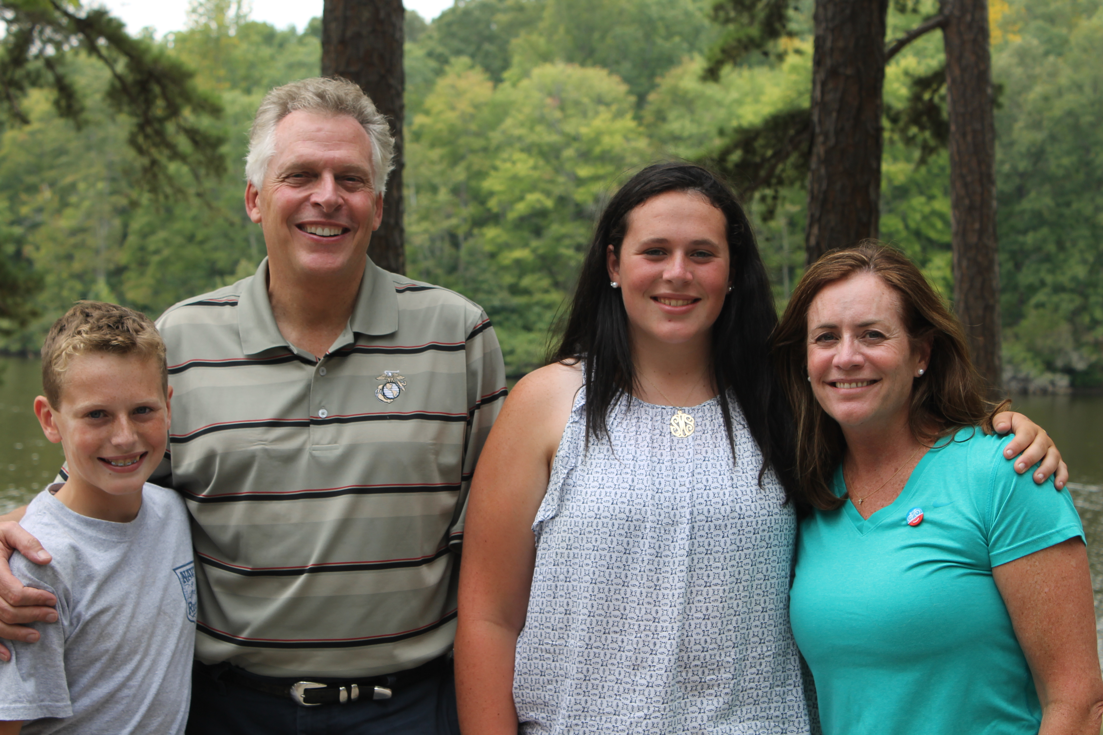 Taken by zar 2015 Learn more about Twin Lake State Park here